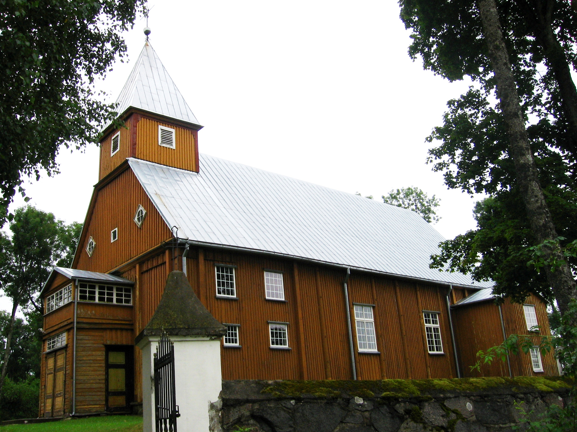 Barstyciai Catholic Church, Skuodas district, Lithuania